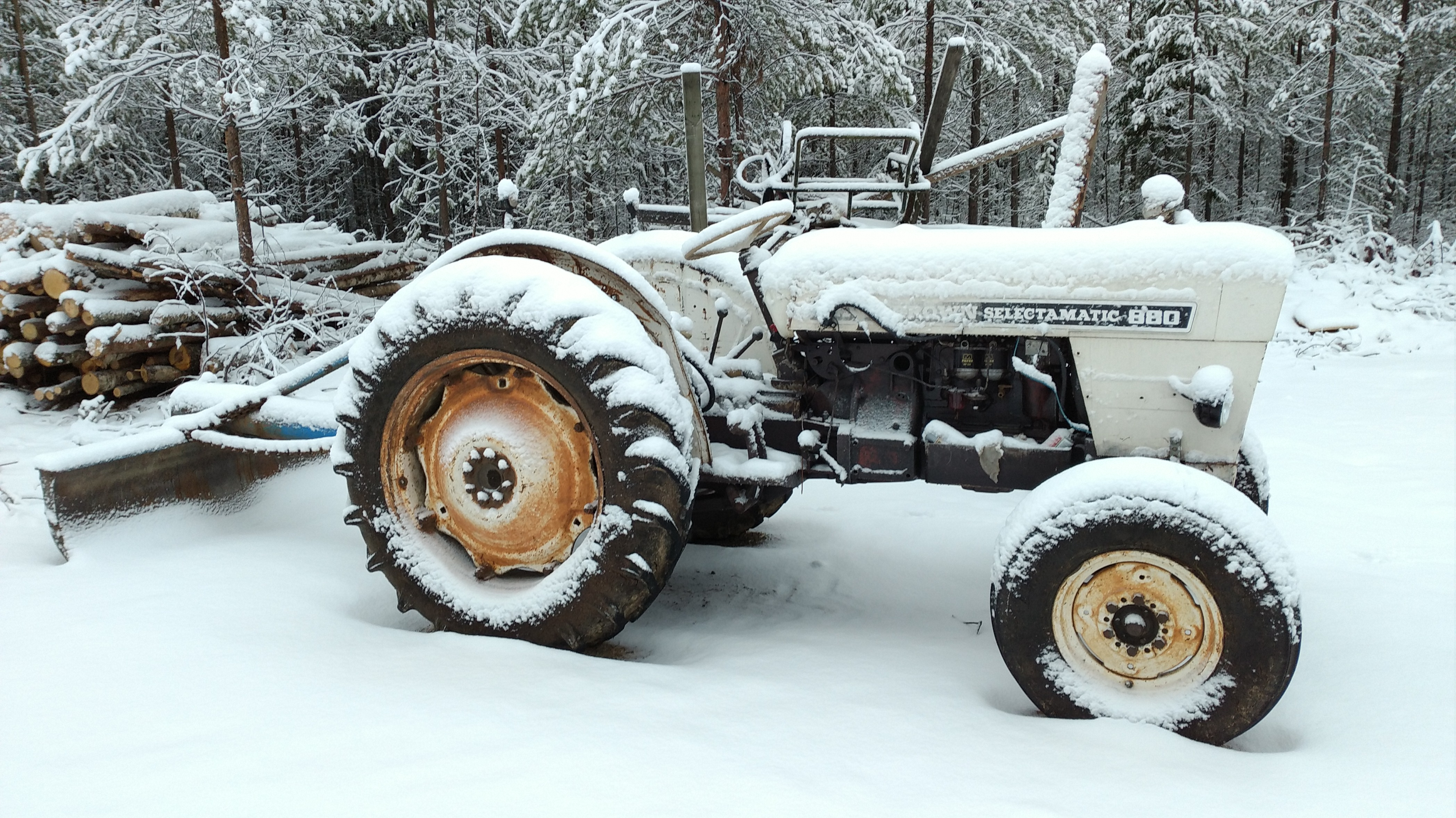 David Brown Selectamatic 880 in a Finnish early winter landscape, ready for use.